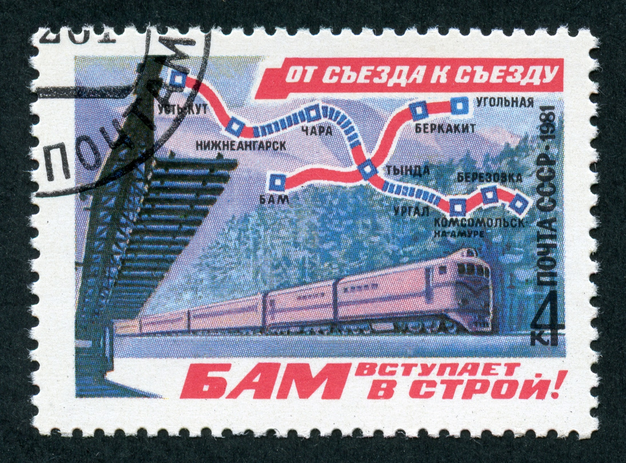 A USSR stamp